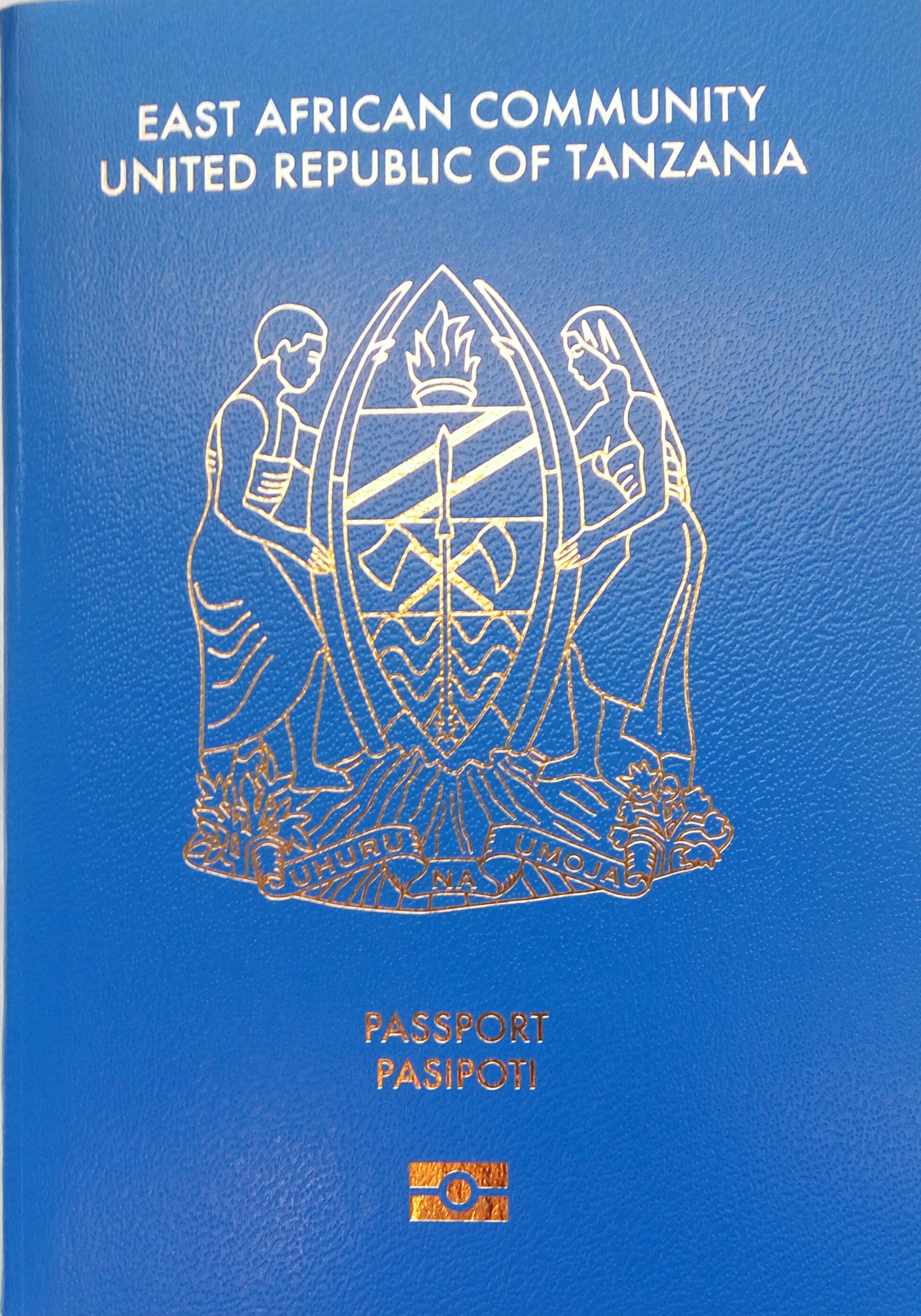 e-Passport